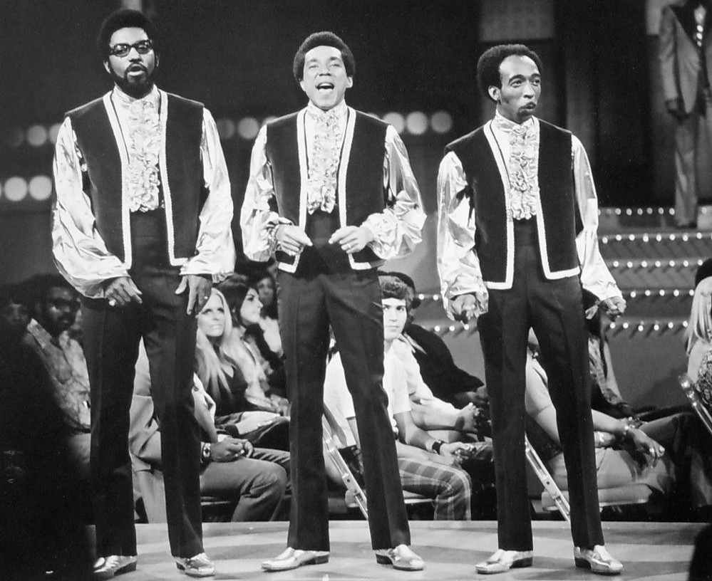 Photo of Smokey Robinson (center) and The Miracles performing on a 1970 Smokey Robinson television special.